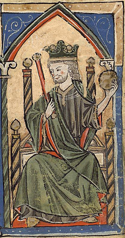 Alfonso VIII of Castile (he is in fact Alphonse IX of León, because it is referred that the two monarchs who were represented were "Kings of León and Galicia", title which wasn't adopted by Alphonse VIII of Castile)